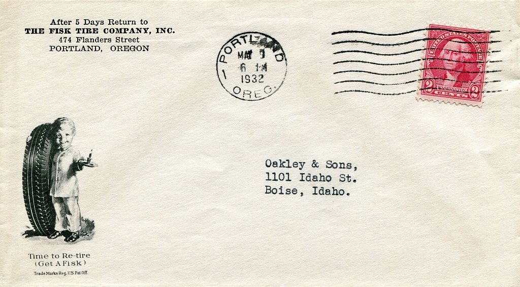 Meter cancelled cover, with a cachet of the Fisk Tire Boy.